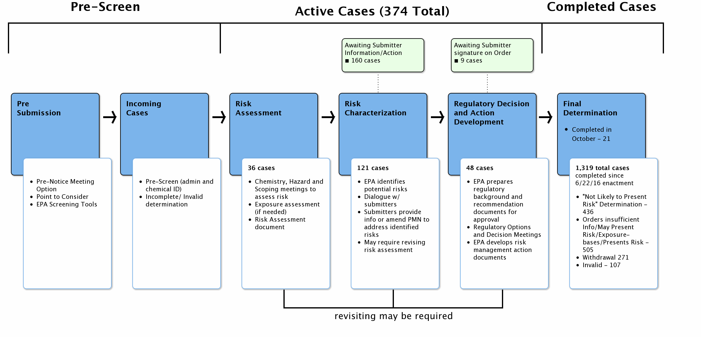 Status chart of new chemicals being reviewed by EPA under the Toxic Substances Control Act (TSCA). The graphic describes the number of active cases (Premanufacture Notices (PMNs), Significant New Use Notices (SNUNs), and Microbial Commercial Activity Notices (MCANs)) currently under review by EPA and their stage of review.